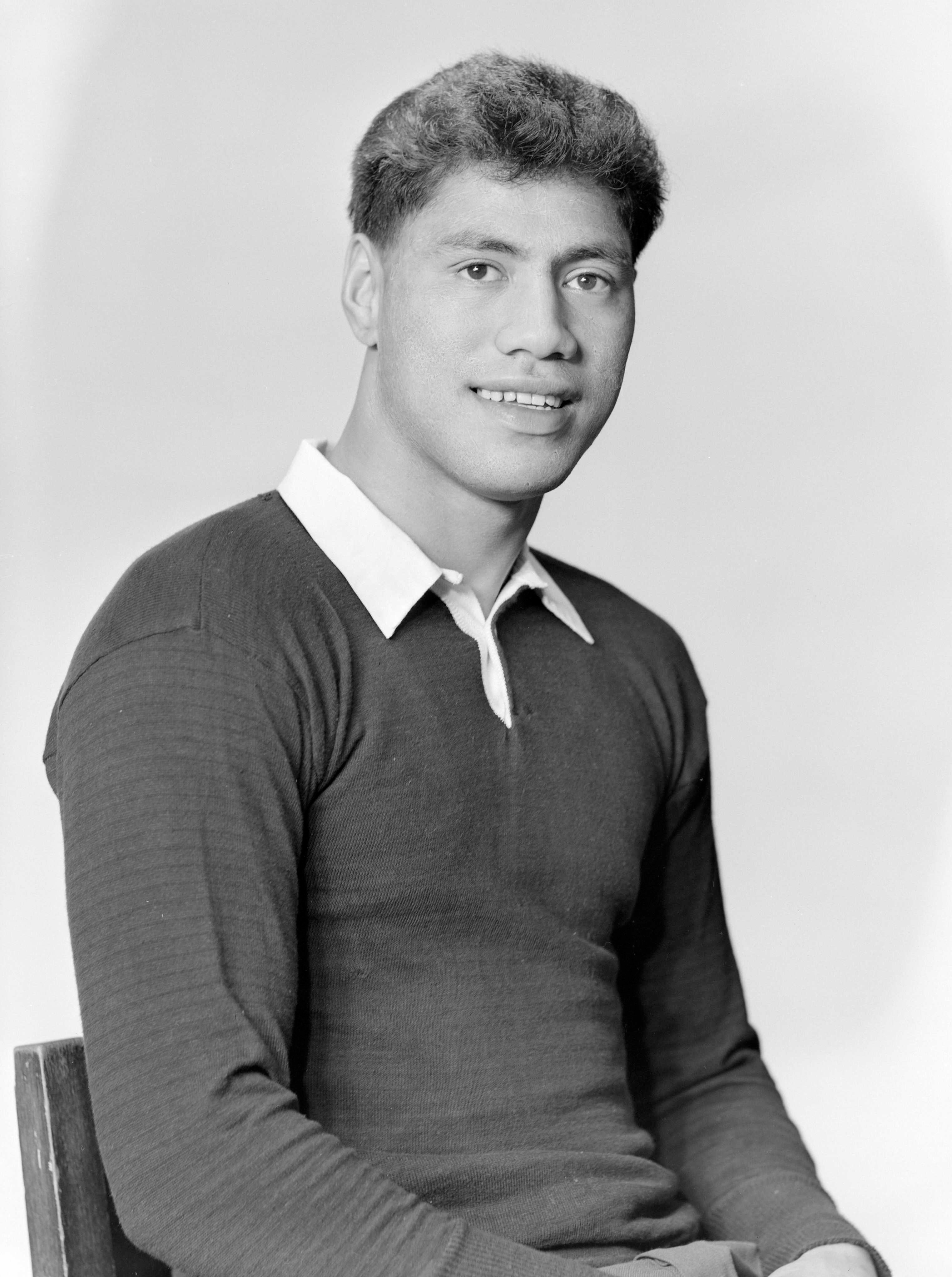 Photograph of rugby player Waka Nathan, taken by Crown Studio Ltd of Wellington.